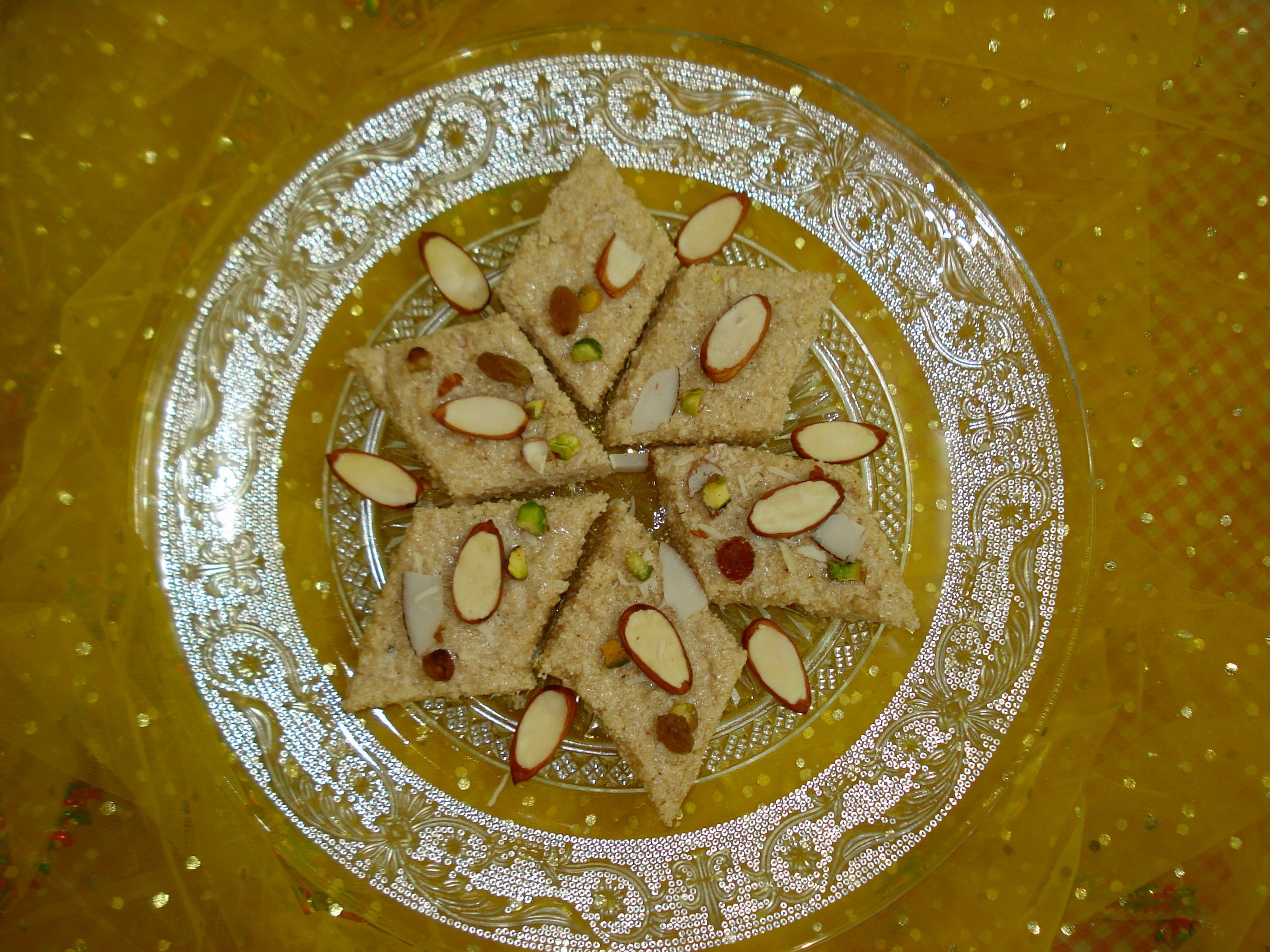 Suji Dry Halwa